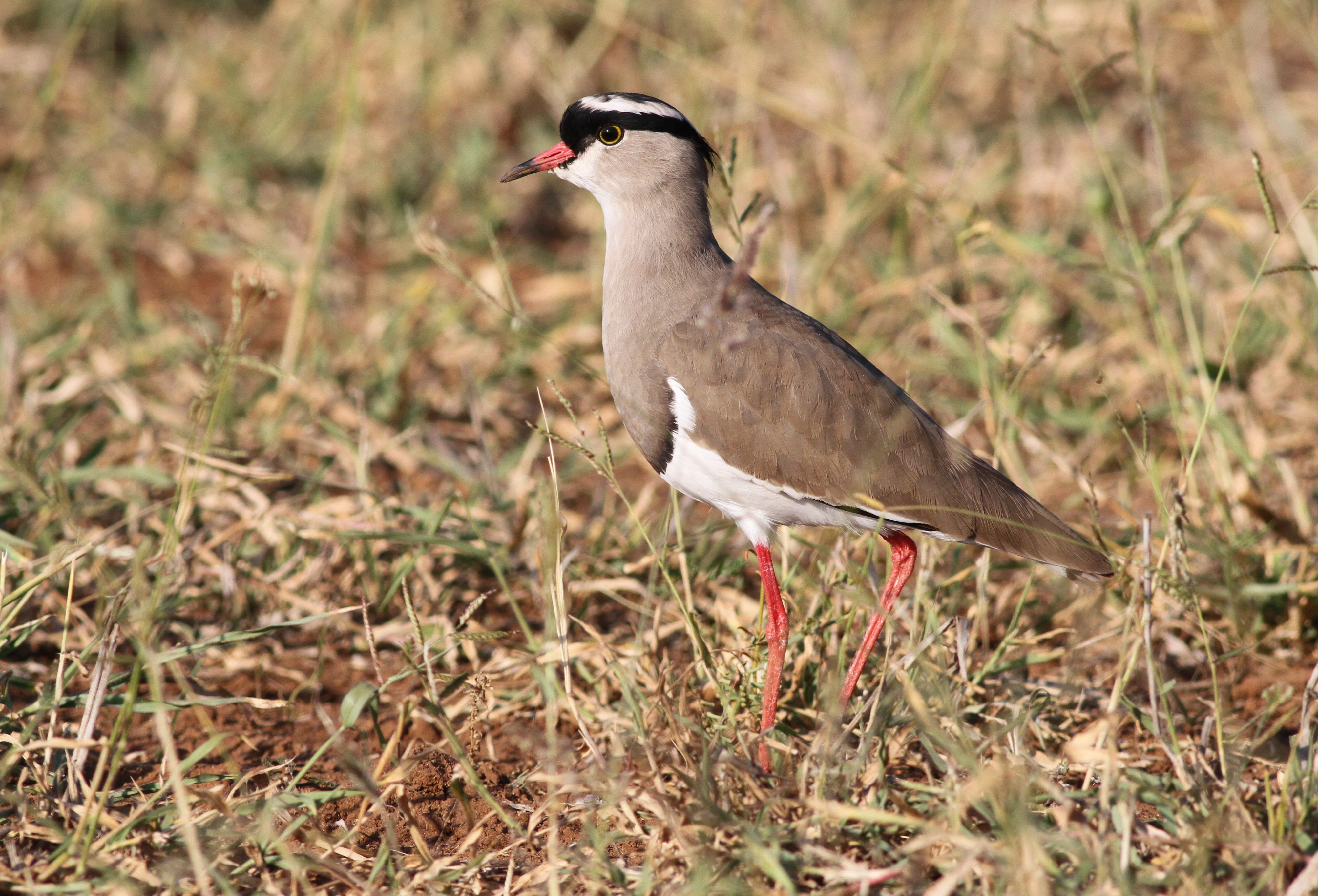 Crowned Lapwing, Vanellus coronatus, at Mapungubwe National Park, Limpopo, South Africa